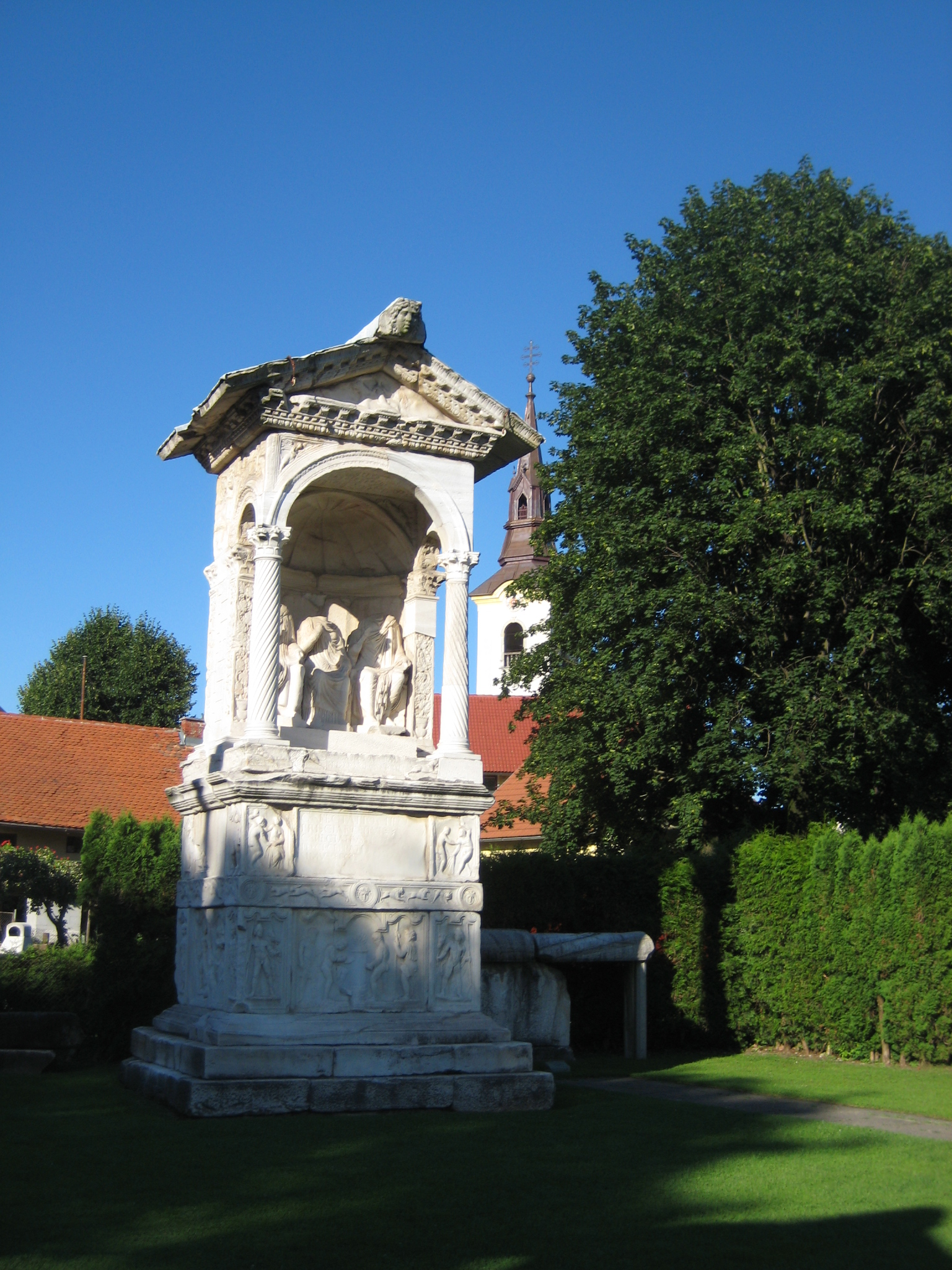 Šempeter in Savinjska dolina, Slovenia. (Roman necropolis site.)